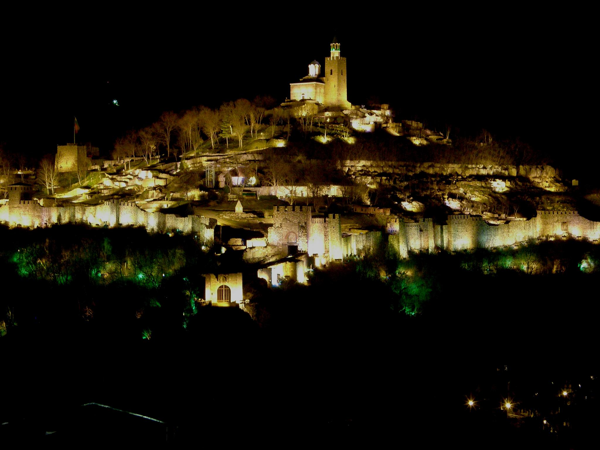 The "Sound and light" show in the Tsarevets fortress in Veliko Tarnovo, Bulgaria.